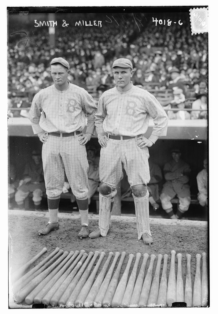 Baseball players Sherry Smith and Otto Miller (Lowell Otto Miller, not Otis Louis Miller) of the 1916 Brooklyn Robins.